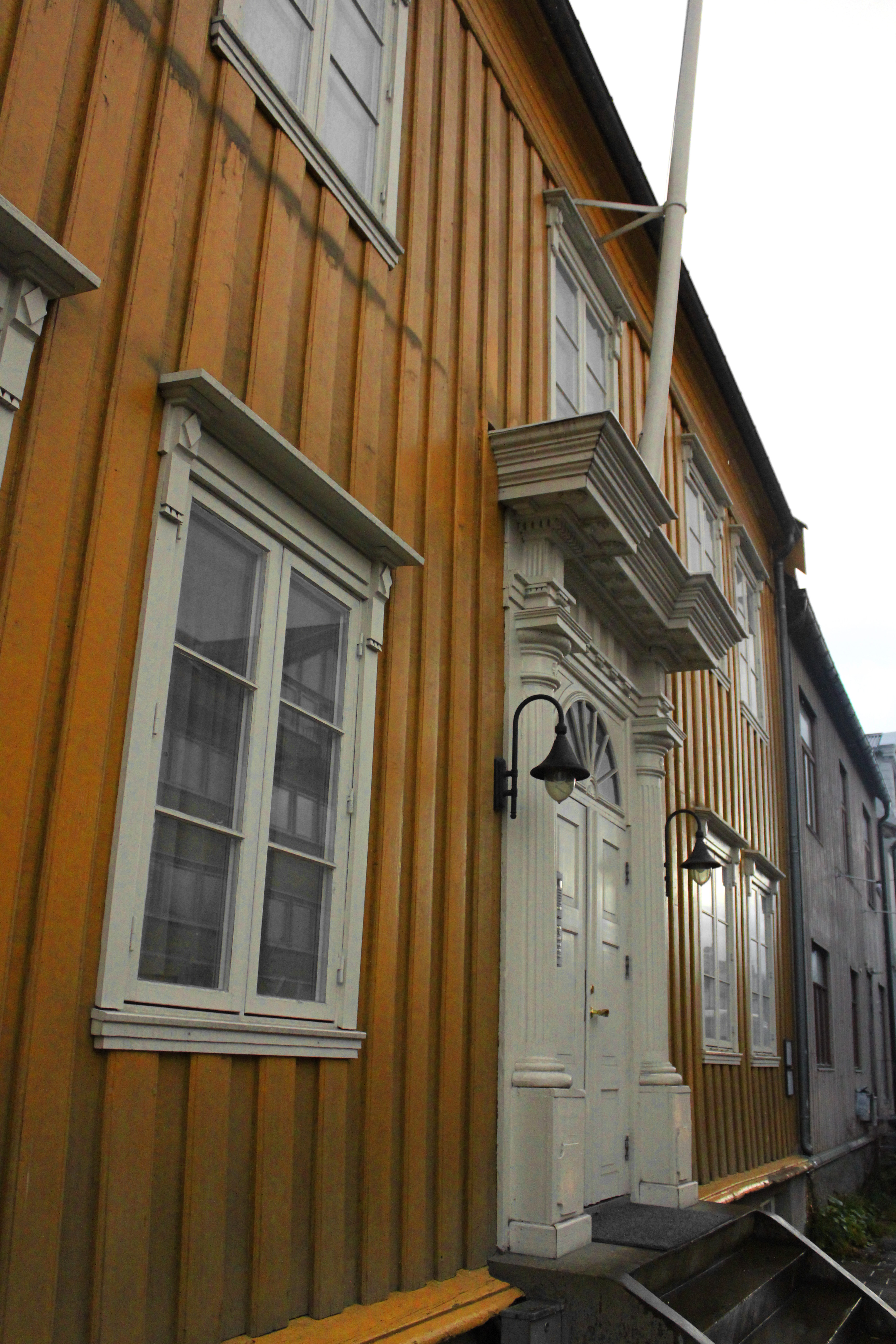 Skippergata 19, Tromsø Norway